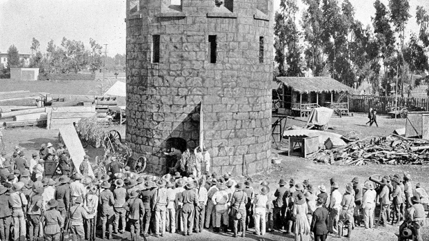 Theda Bara in Under the Yoke. Note the screen which is being held at an angle back of the camera to get the proper light reflection.